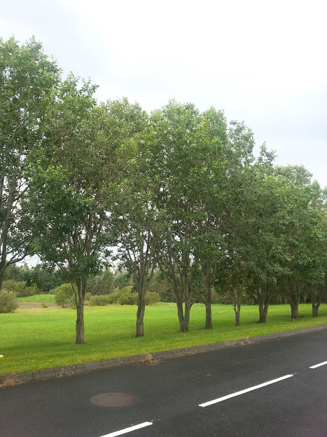 Goat Willow